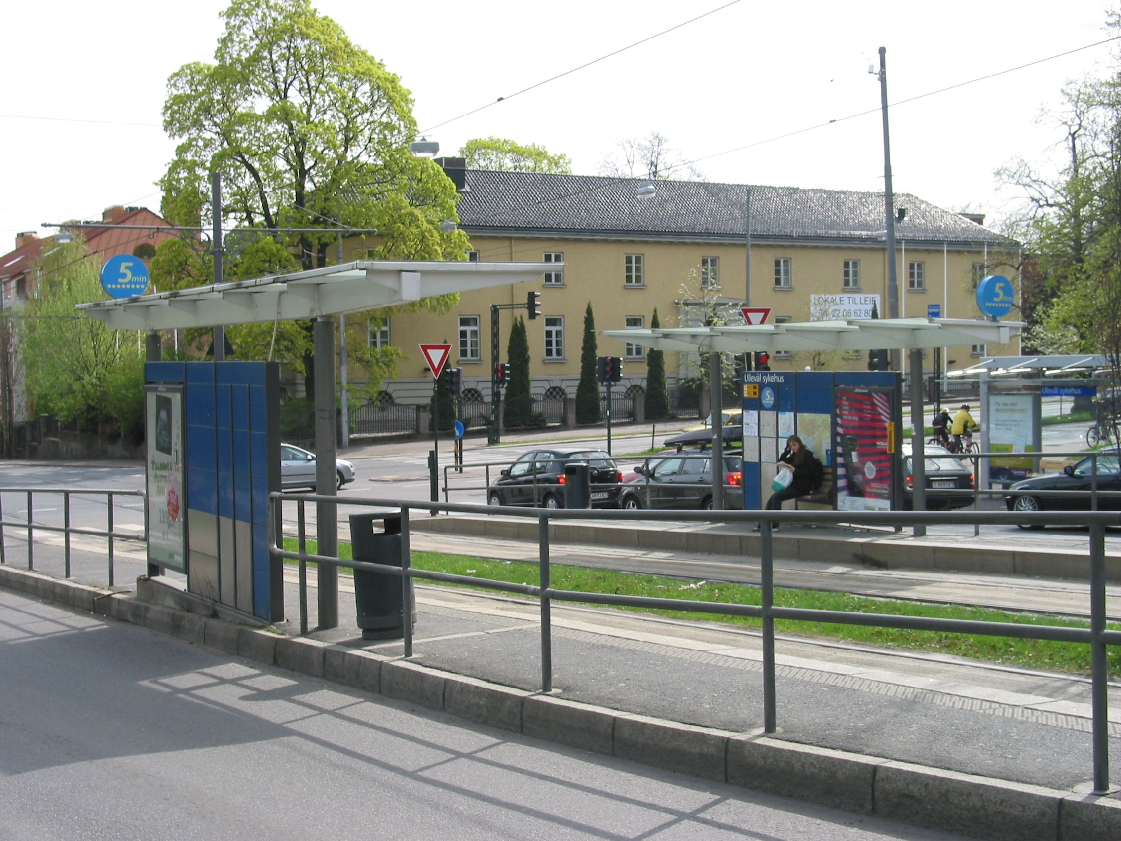 Ullevål sykehus light rail station, Oslo. Looking south.